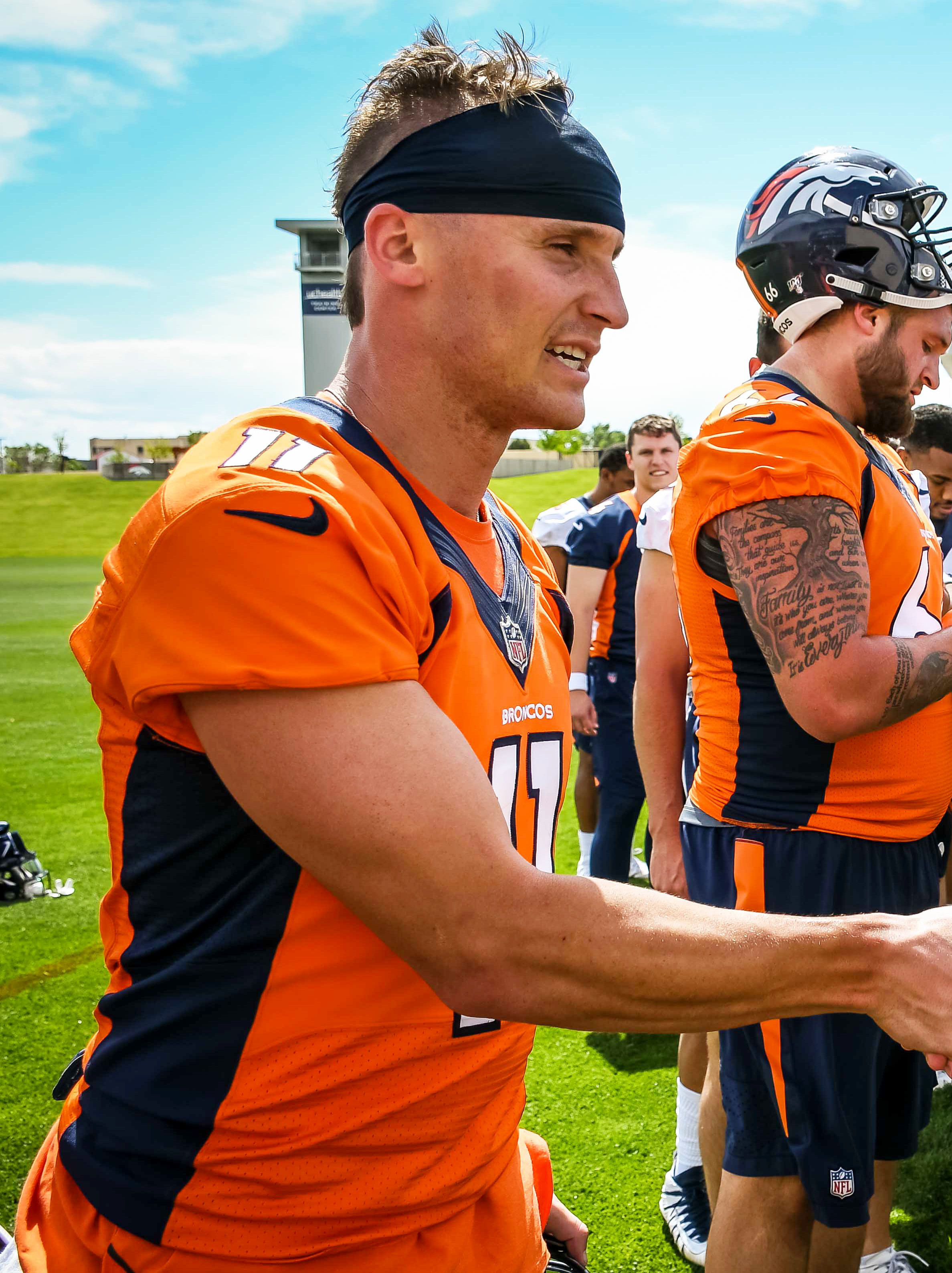 FORT CARSON, Colo. — Sgt. Jeana Bader, combat medic, 64th Brigade Support Battalion, 3rd Armored Brigade Combat Team, 4th Infantry Division, meets River Cracraft, a wide receiver for the Denver Broncos, during a meet and greet with the Denver Broncos players June 4, 2019, at the UC Health Training Center. Soldiers from Fort Carson were invited for a special VIP experience that included a catered lunch, prizes and exclusive access to watch a private minicamp practice session. See the story in next week’s Mountaineer. (Photo by Amber Martin)